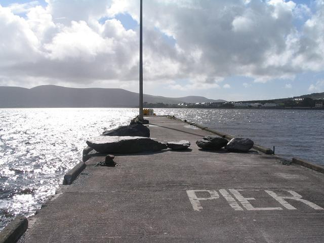 Pier at Valentia Harbour The photo was taken from the mainland. There is a car ferry which takes you to the opposite bank (on the right), on Valentia Island.